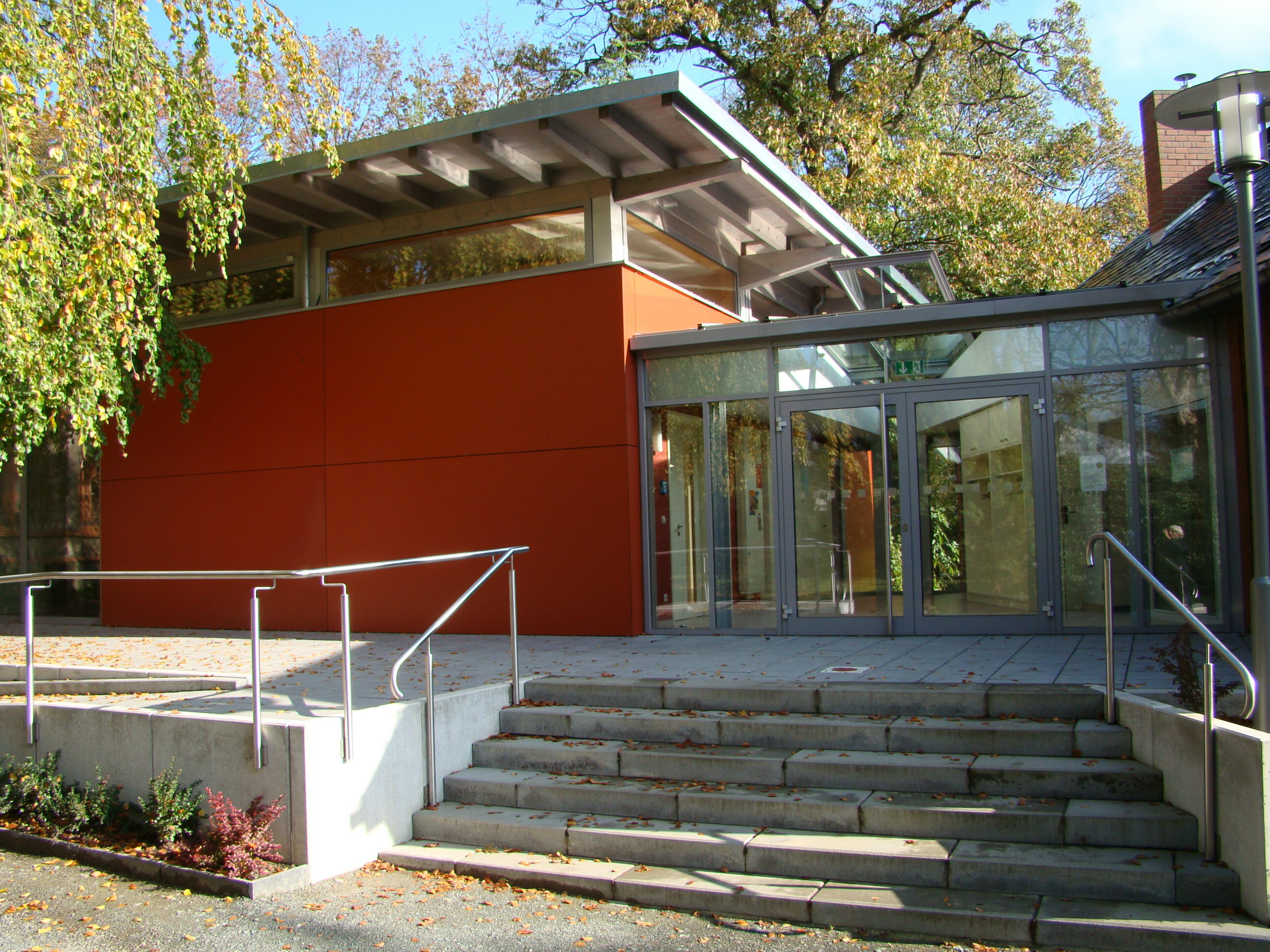 Bad Elster, Gemeindezentrum der Ev.-Luth. Kirchgemeinde, Haupteingang